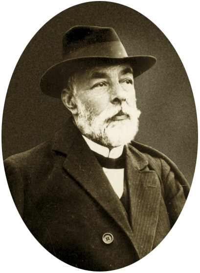 Stepan Malkhasyants, an Armenian academician and philologist